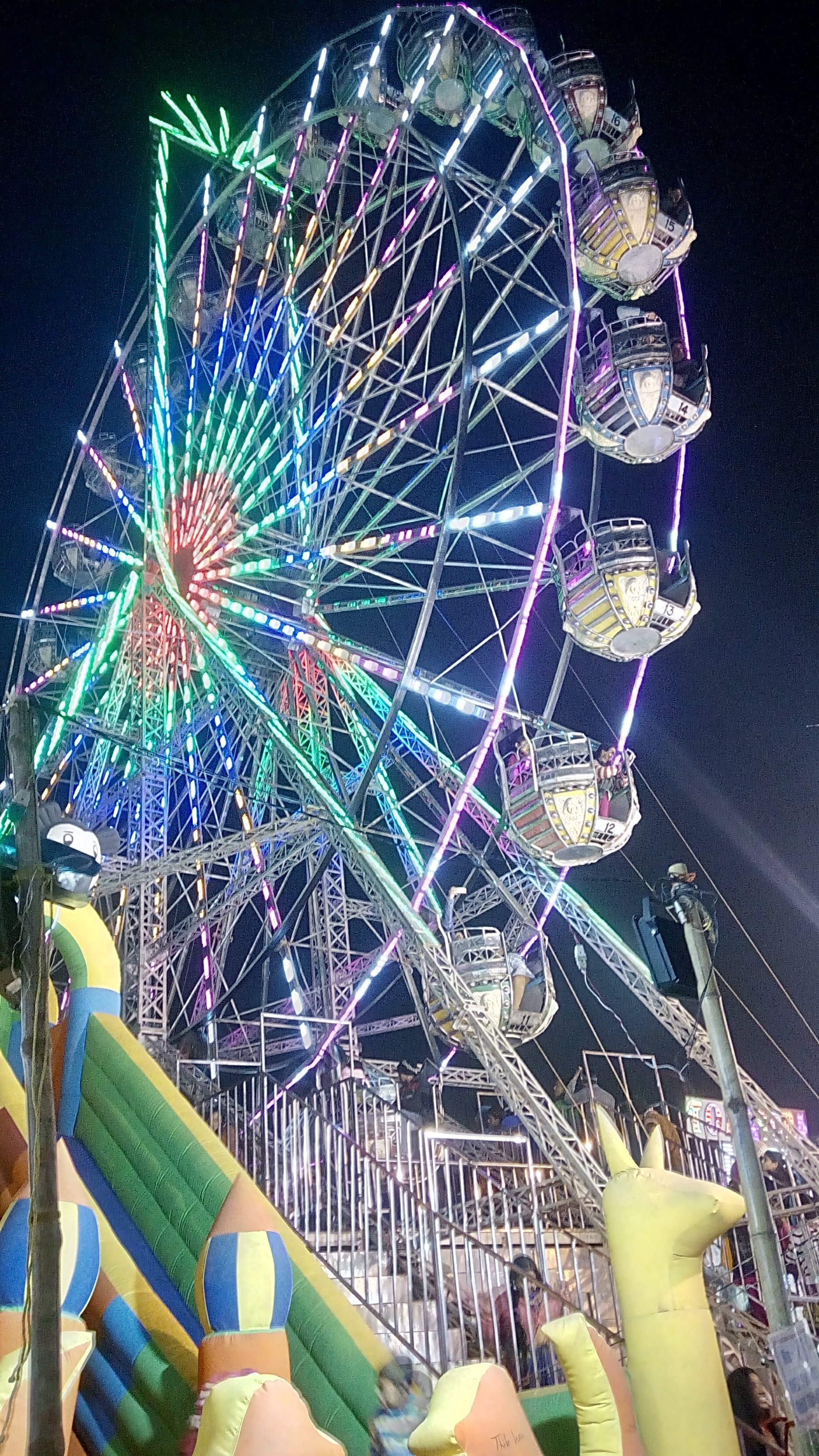 Giant Circle at Poush Mela